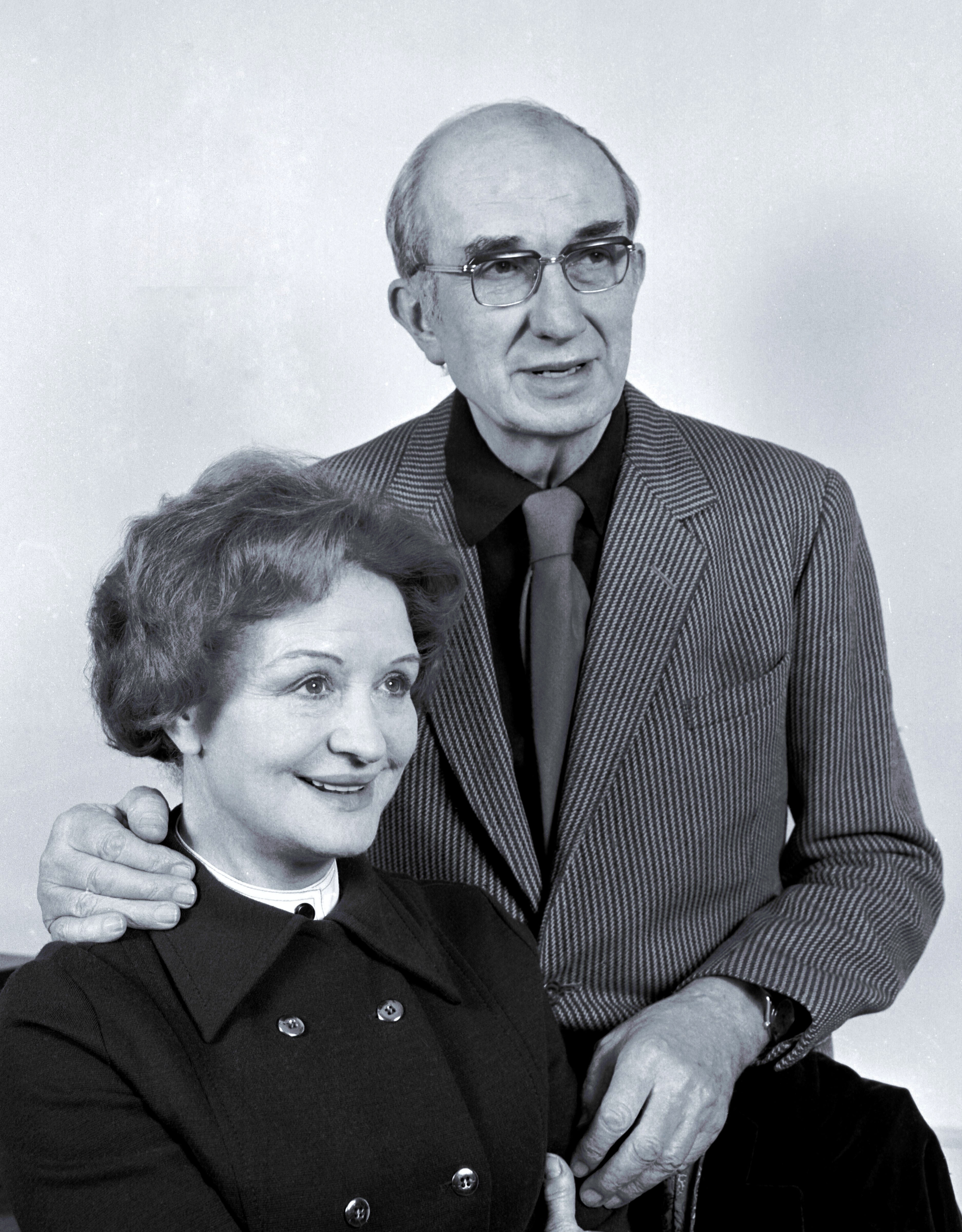 Lord & Lady (Bernard) Miles